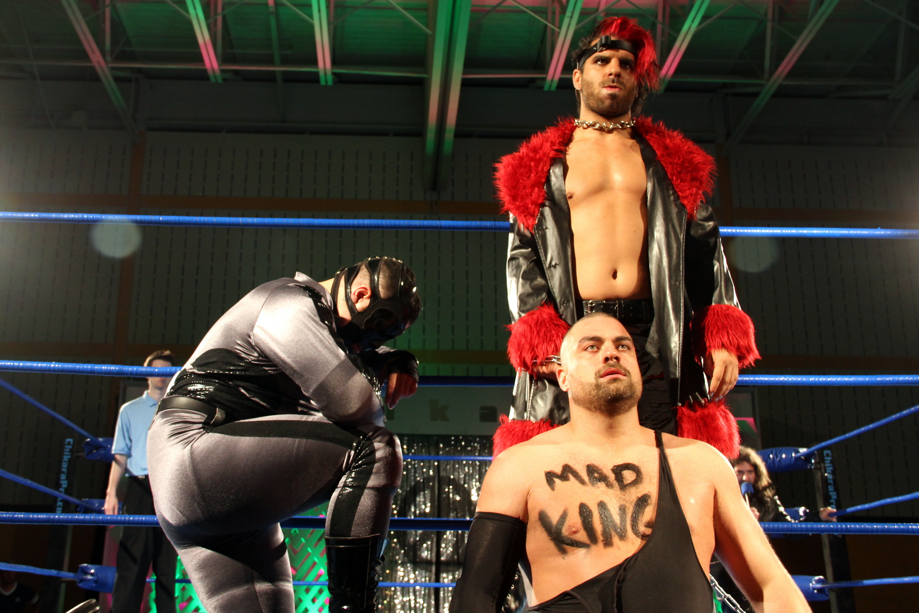 Volgar, Jimmy Jacobs, and Eddie Kingston at Chikara's King of Trios Night 1 show in September 2014.